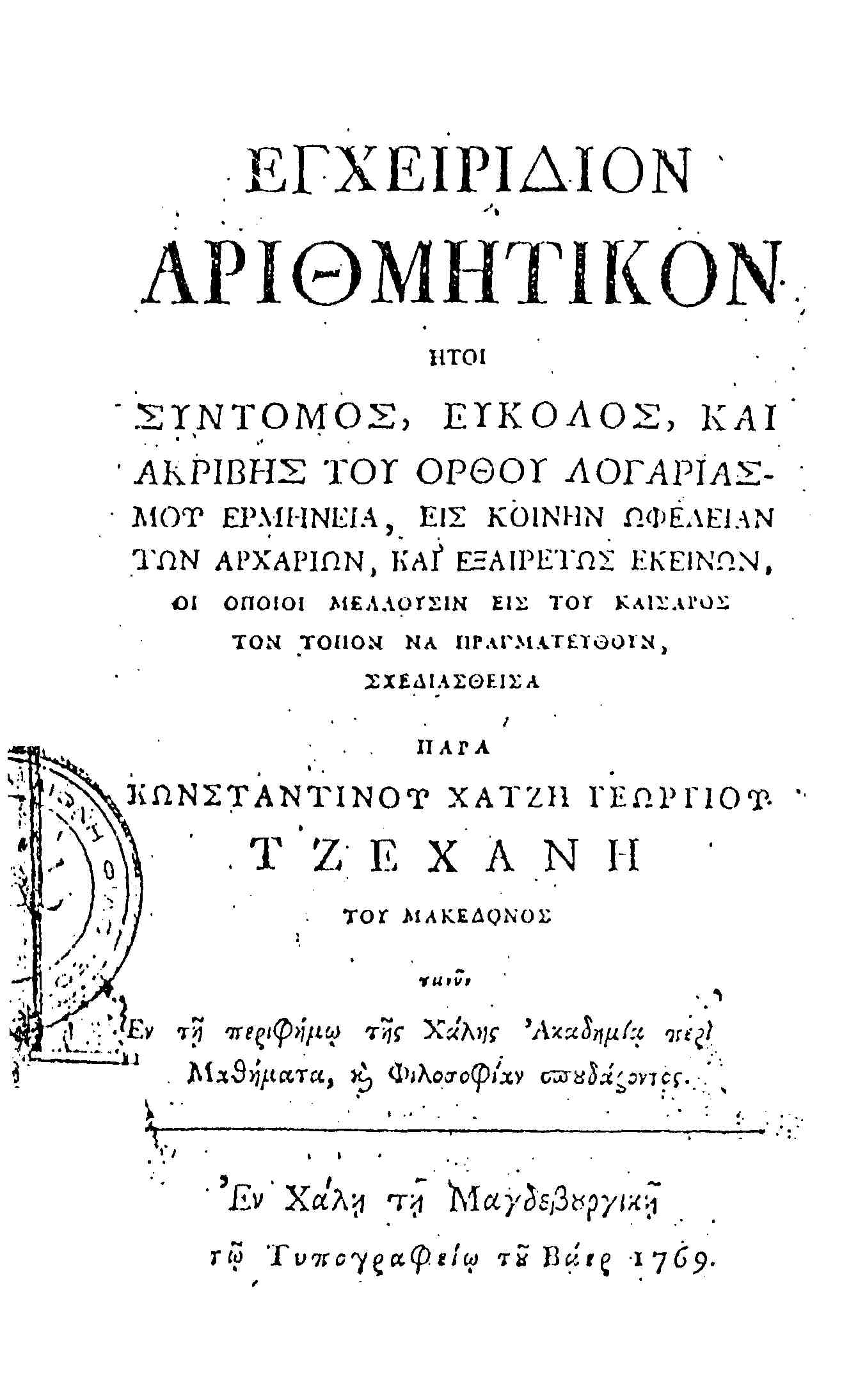 Cover of 'Εγχειρίδιον αριθμητικής', written by mathematician and pholisopher K. Tzechanis